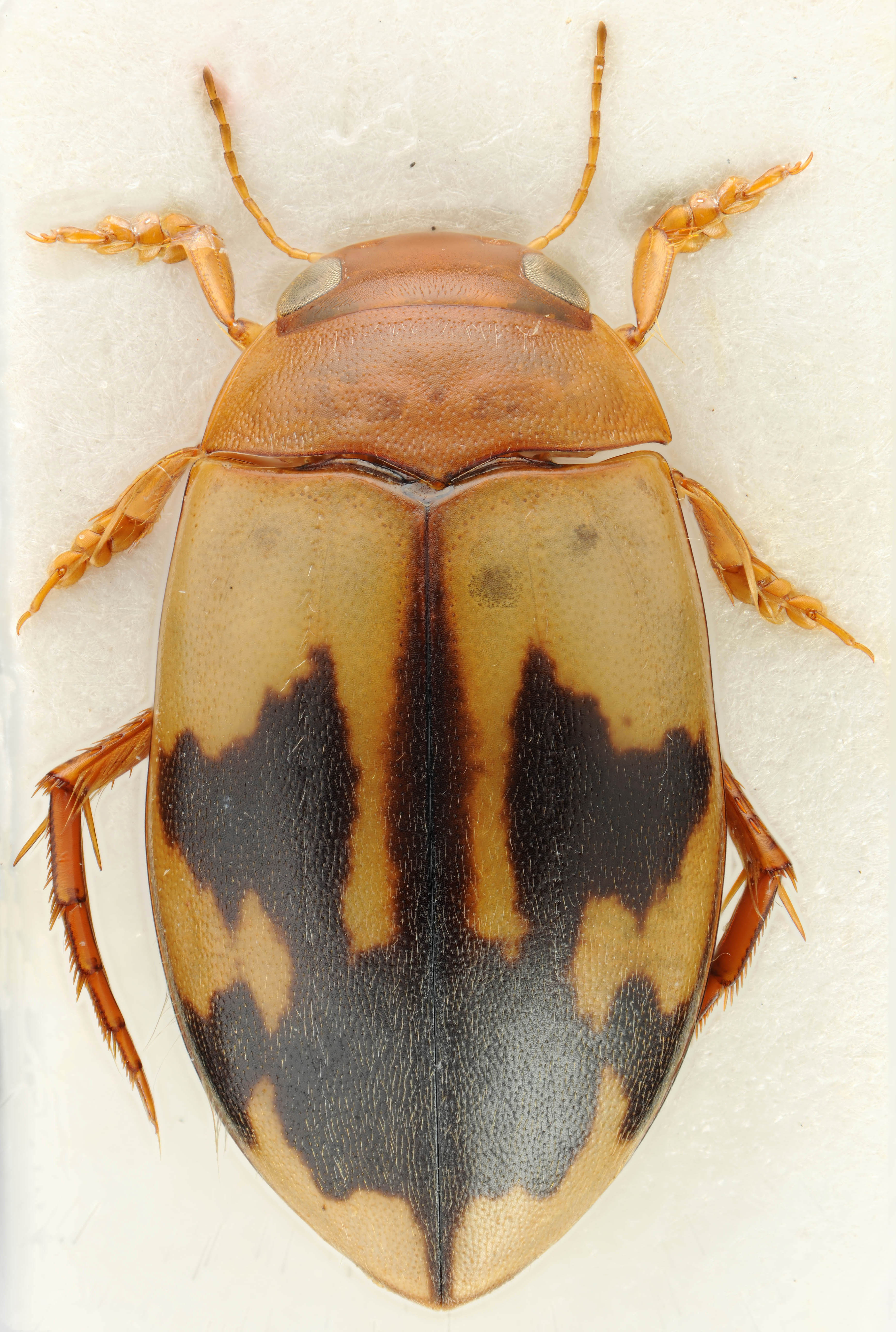 Dorsal habitus of Megaporus howitti